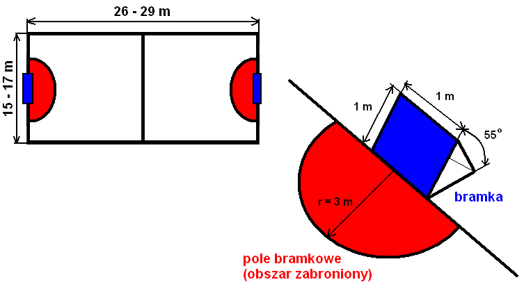 Tchoukball field accordingly to new (year 2009) official rules.